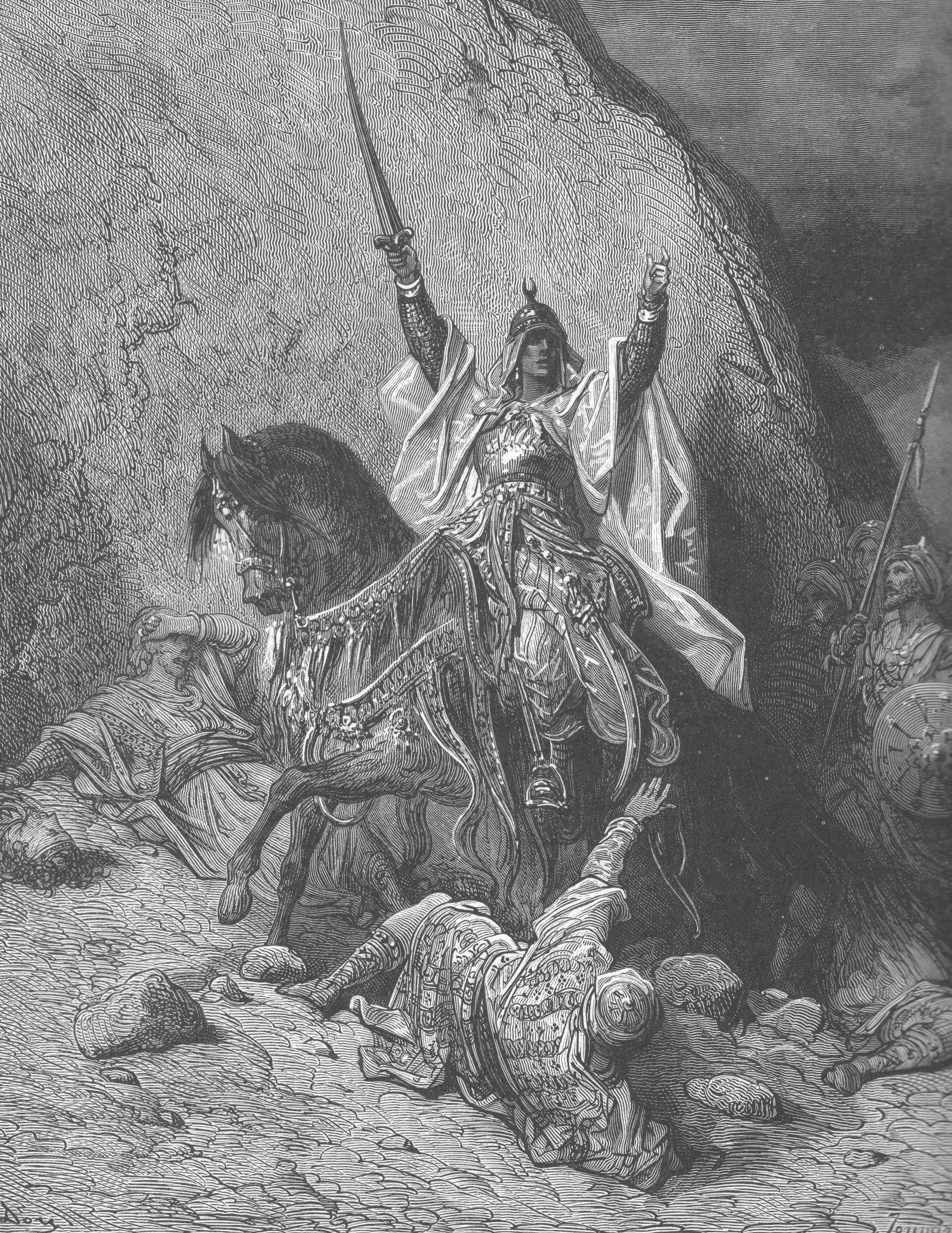 Saladin